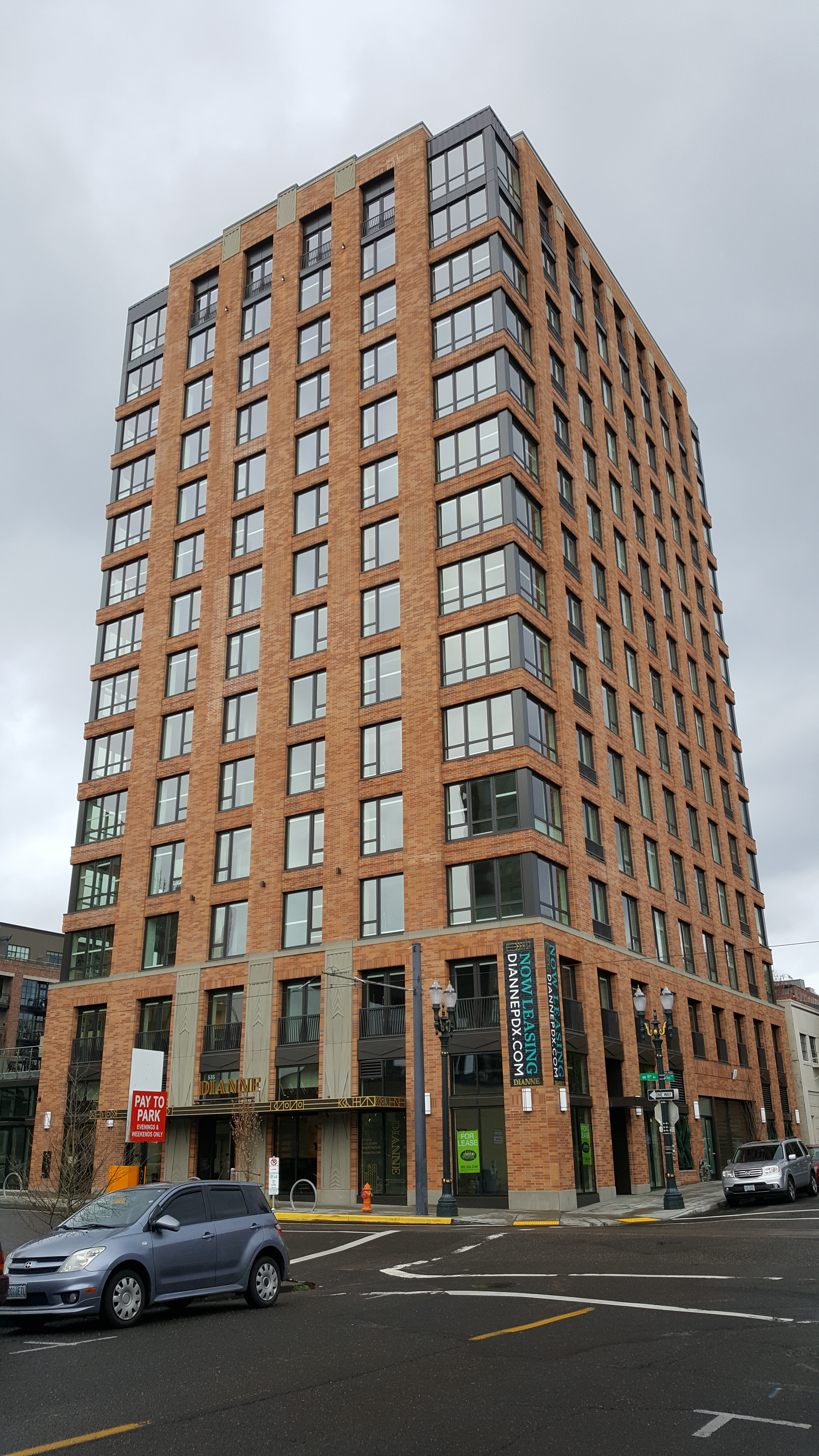 The Diane